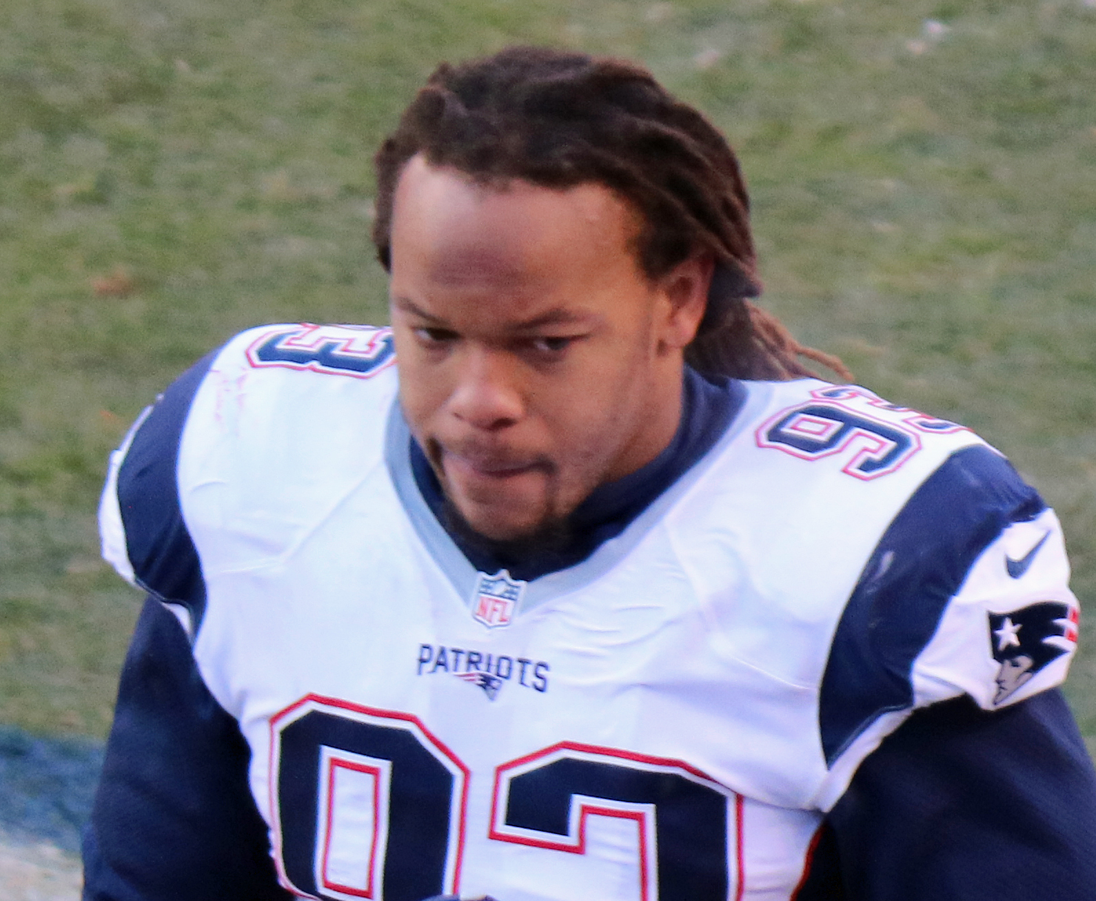 Jabaal Sheard, a player on the National Football League.